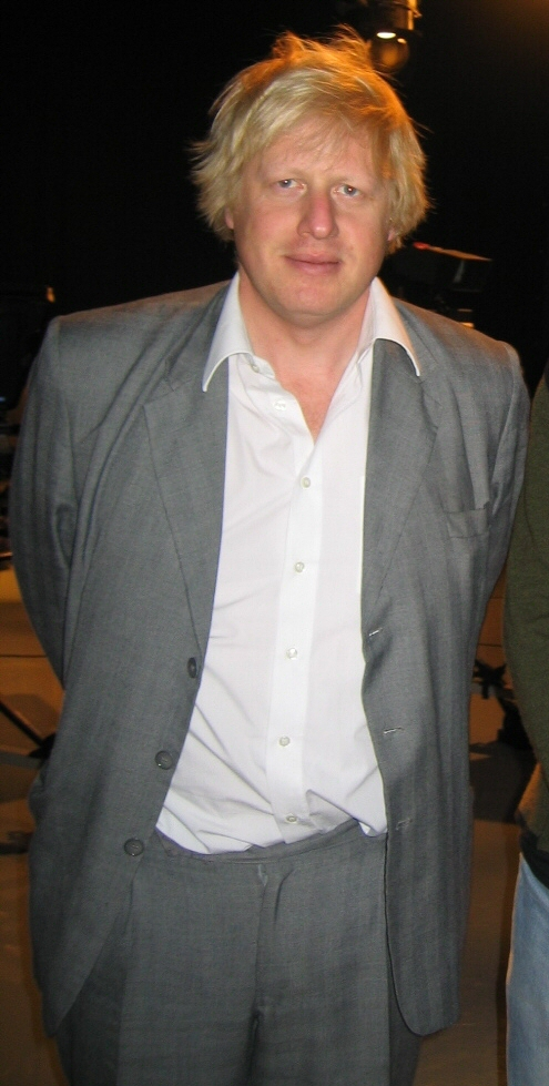 Boris Johnson at the University of BedfordshireBoris & I